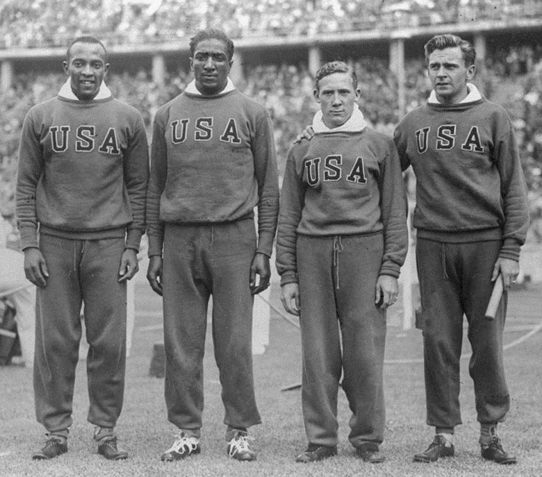 Jesse Owens (left), Ralph Metcalfe (second left), Foy Draper (second right) and Frank Wykoff (right), the USA 4x100 metres Relay Team at the 1936 Olympic Games in Berlin. The USA won the gold medal in this event